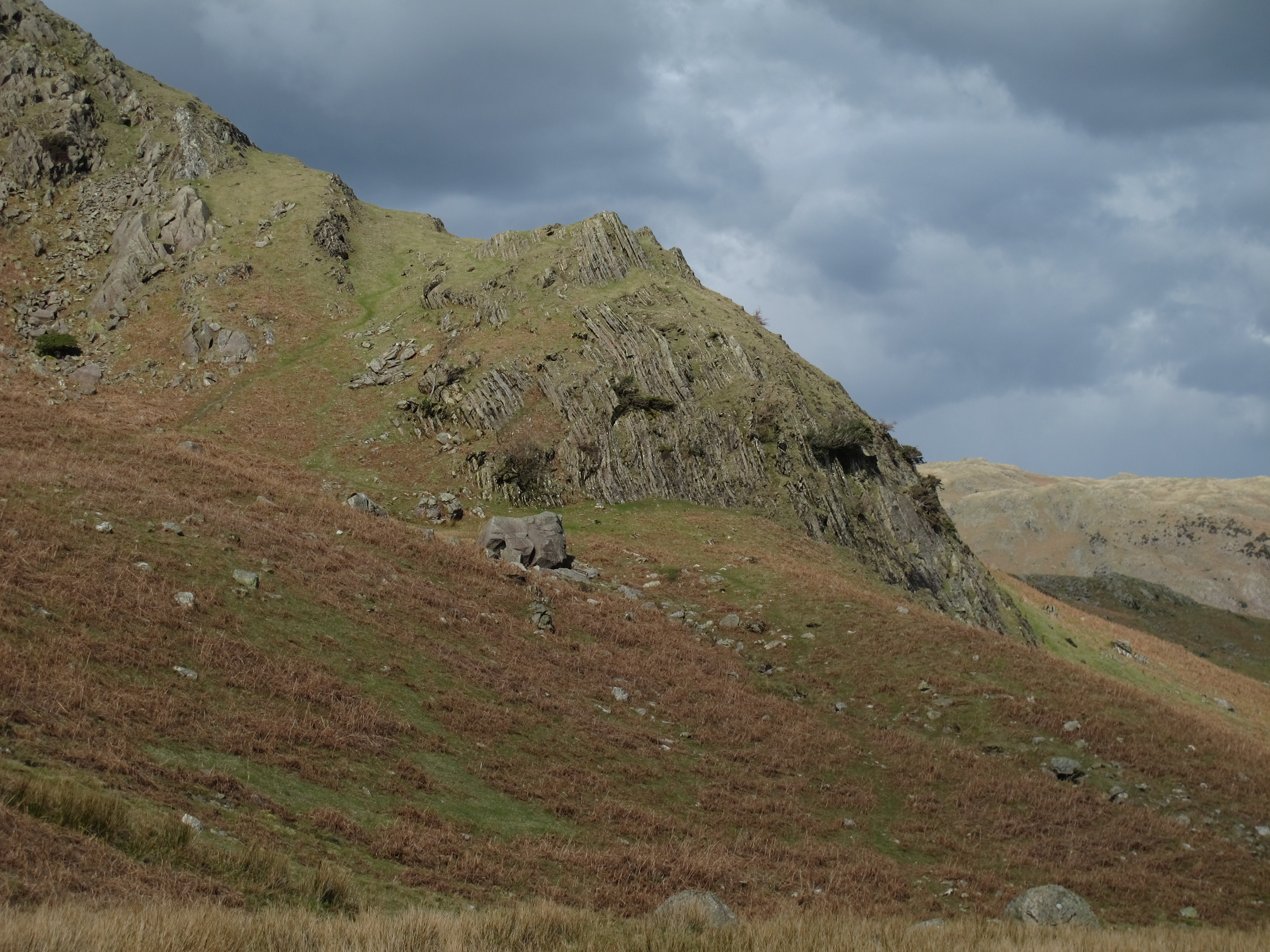 Steeply-dipping well-bedded calcareous mudstones of the Dent Group above more massive volcanic rocks of the Lincomb Tarns Tuff Formation - Timley Knott on the southeastern flank of Coniston Old Man